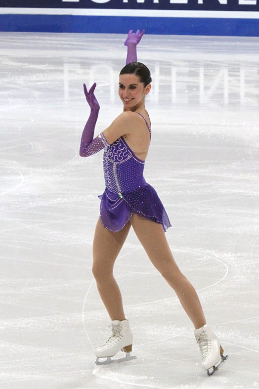 Sarah Hecken at the 2011 European Figure Skating Championships